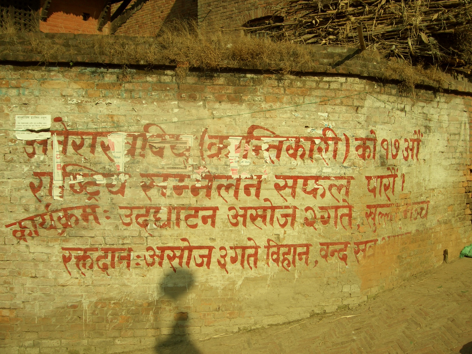 Photo: Soman